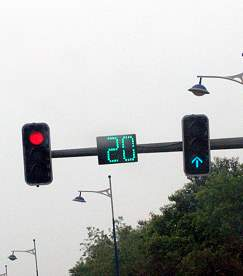 Traffic light in China